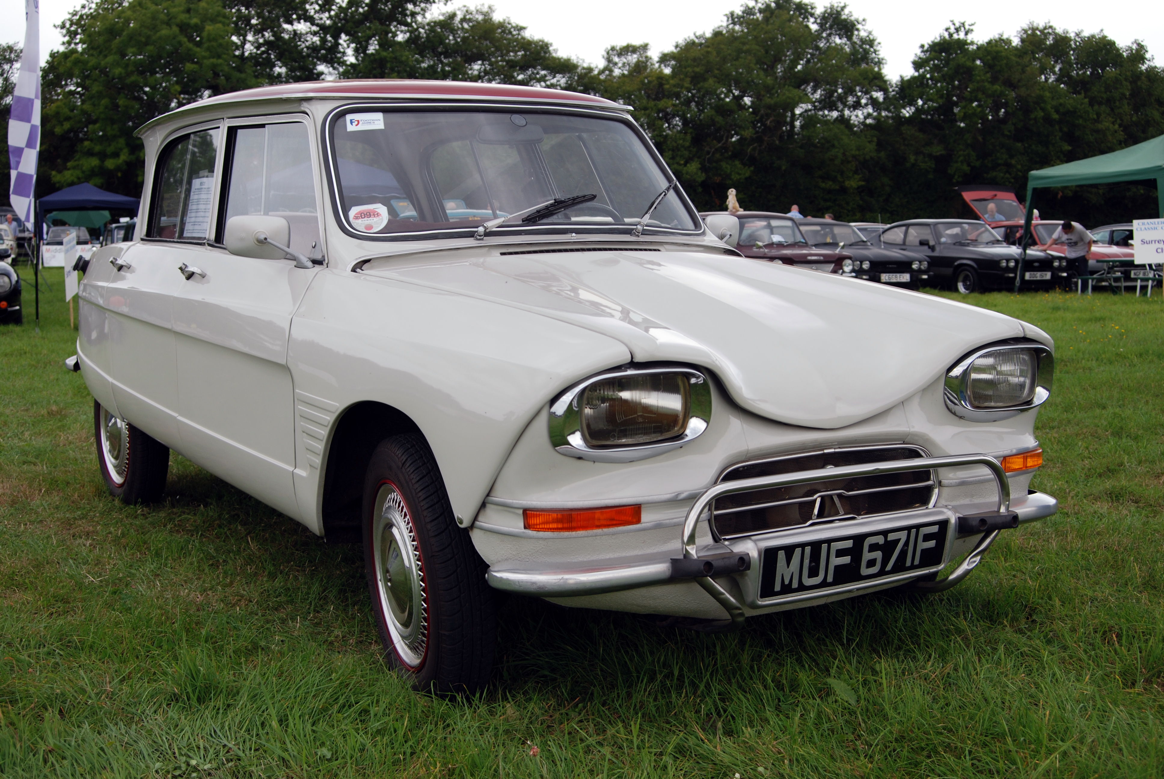 Cranleigh,Aug 2011